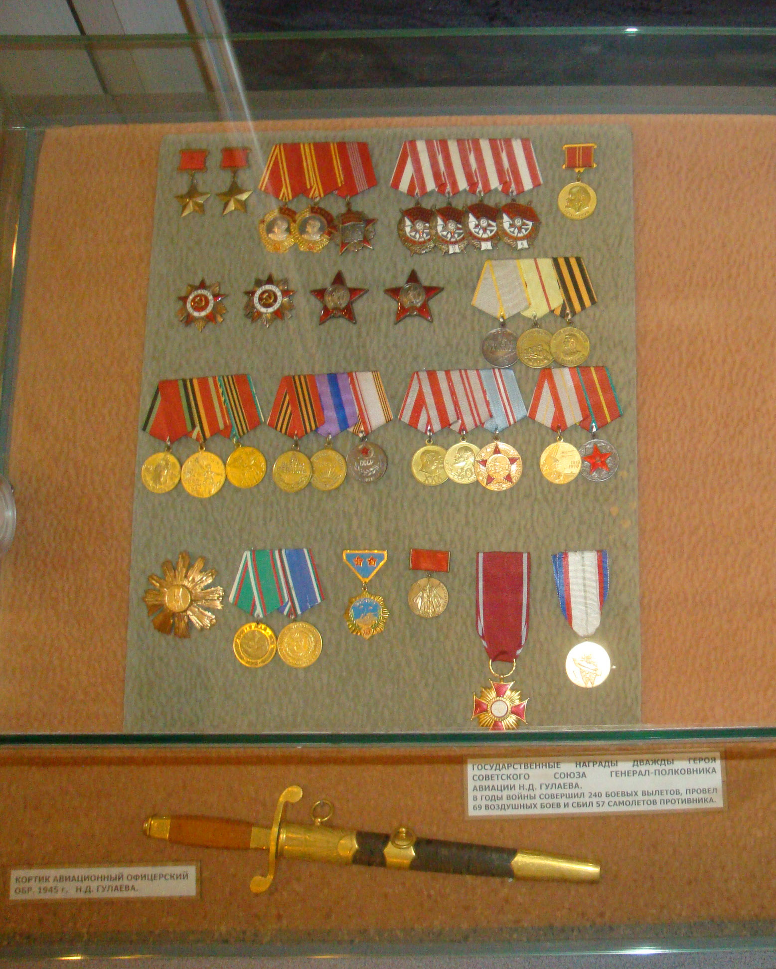 Awards of Nikolai Gulayev.